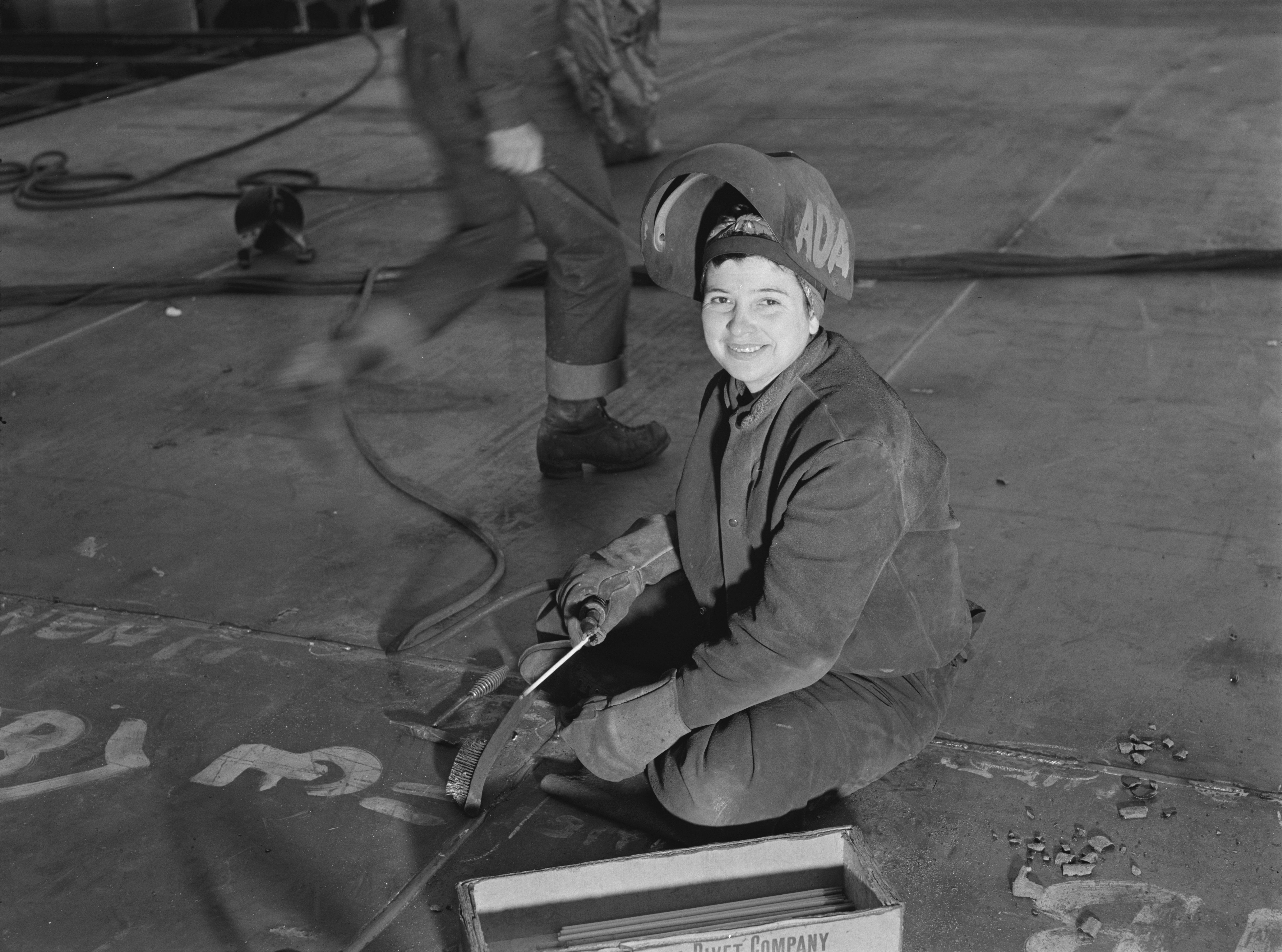 A "Wendy Welder" (see Rosie the Riveter) at the Richmond Shipyards, Richmond, California, USA. This woman worker pushes back her helmet during a moment's pause from her welding job at the Richmond shipyard in California.